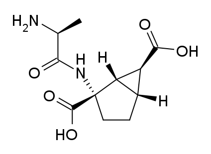 i drew this anyone can use it